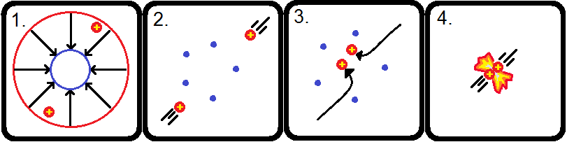 This is an illustration of the fusion mechanisms in a fusor; also known as a Hirsch-farnsworth fusor or a Spherically Convergent Ion Focus (SCIF). This description is taken from the dissertation: "Ion Flow and fusion reactivity characterization of a spherically convergent ion focus" by Tim Thorson, Wisconsin-Madison, 1996. (1) The fusor contains two wire cages - also known as grids - one inside the other. The inner cage is the cathode, while the outer cage is the anode. Ions are introduced, injected or generated inside the two cages. (2) The ions accelerate down the voltage drop towards the inner cage. The electric field is doing physical work on the ions, heating them, to fusion conditions. (3) The ions must miss the inner cage. (4) If they collide, or are concentrated in the center grid, they can fuse. This is the basic mechanism for nuclear fusion in fusors. Other information This is an illustration of the fusion mechanisms in a fusor; also known as a Hirsch-farnsworth fusor or a Spherically Convergent Ion Focus (SCIF). This description is taken from the dissertation: "Ion Flow and fusion reactivity characterization of a spherically convergent ion focus" by Tim Thorson, Wisconsin-Madison, 1996. (1) The fusor contains two wire cages - also known as grids - one inside the other. The inner cage is the cathode, while the outer cage is the anode. Ions are introduced, injected or generated inside the two cages. (2) The ions accelerate down the voltage drop towards the inner cage. The electric field is doing physical work on the ions, heating them, to fusion conditions. (3) The ions must miss the inner cage. (4) If they collide, or are concentrated in the center grid, they can fuse. This is the basic mechanism for nuclear fusion in fusors.